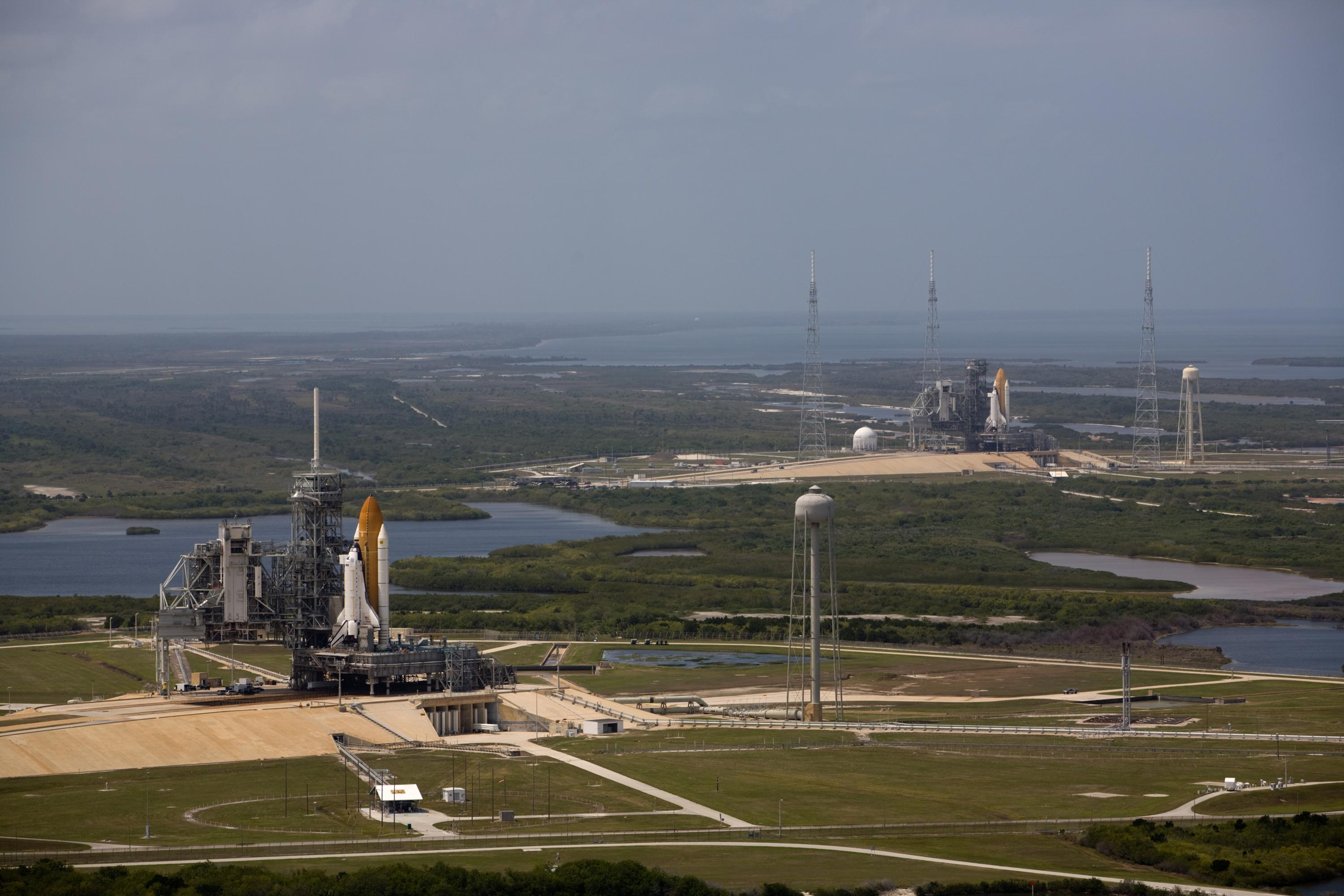 Space shuttle Atlantis on Launch Pad 39A (left) is accompanied by space shuttle Endeavour after Endeavour's rollout to Launch Pad 39B. This was the last time two shuttles were on launch pads simultaneously. Atlantis mission STS-125 was the final servicing mission to upgrade NASA's Hubble Space Telescope. Endeavour was prepped for contingency support (Launch On Need)standing by at pad 39B in the event Atlantis was damaged during flight and unable to safely return to earth, necessitating an emergency rescue mission (STS-400.)